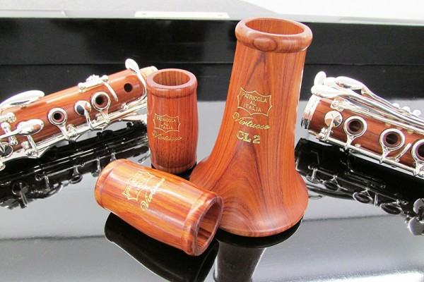 Clarinet CL2 from Fratelli Patricola